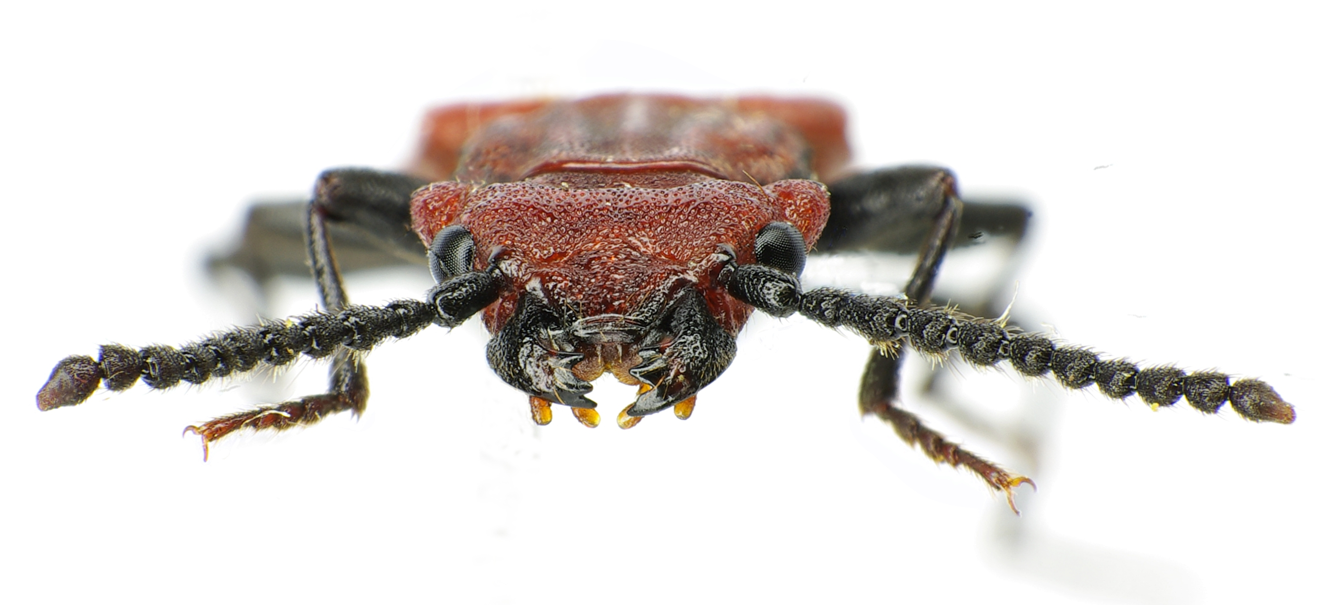 Cucujus cinnaberinus from Hungary, front